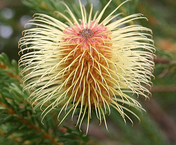 Banksia pulchella, cult. Kings Park